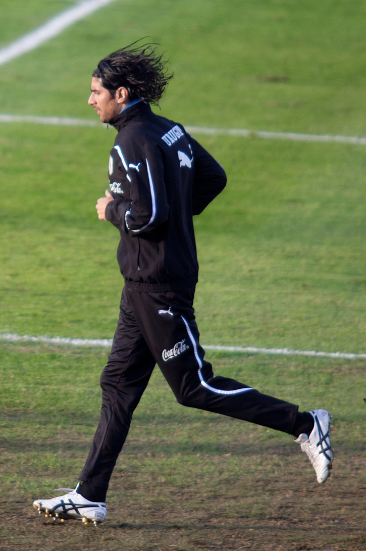 Sebastián Abreu, association football player at the warm-up before match Uruguay v. Netherlands